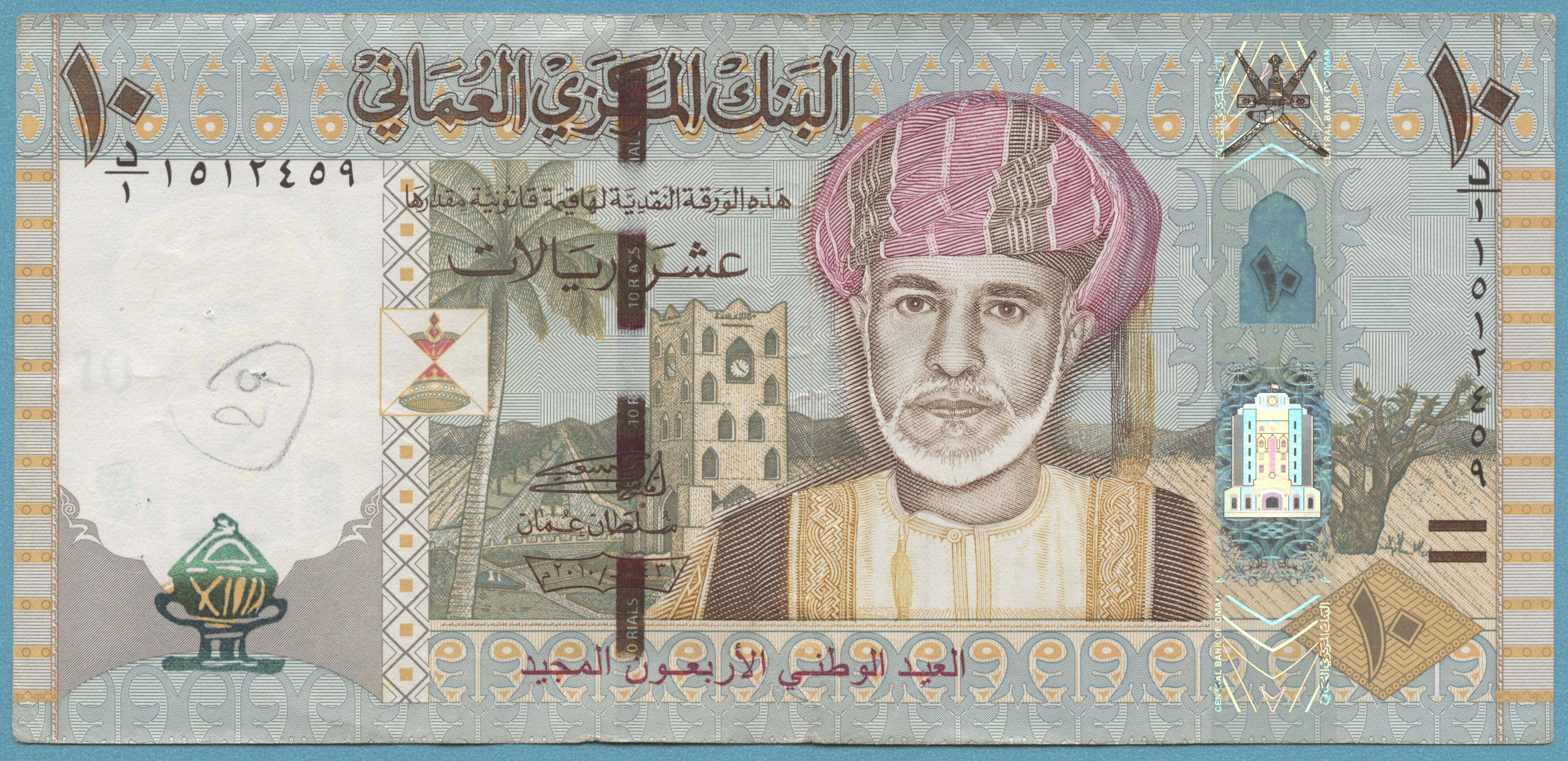 10 Omani Rial (Obverse)